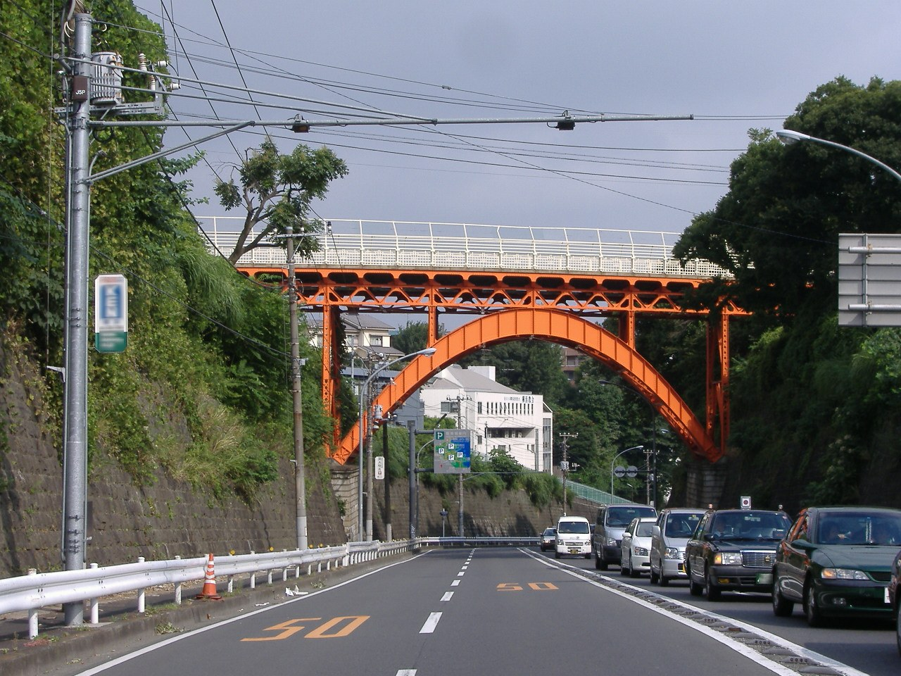 Uchikoshi-bridge (Yokohama,Japan)